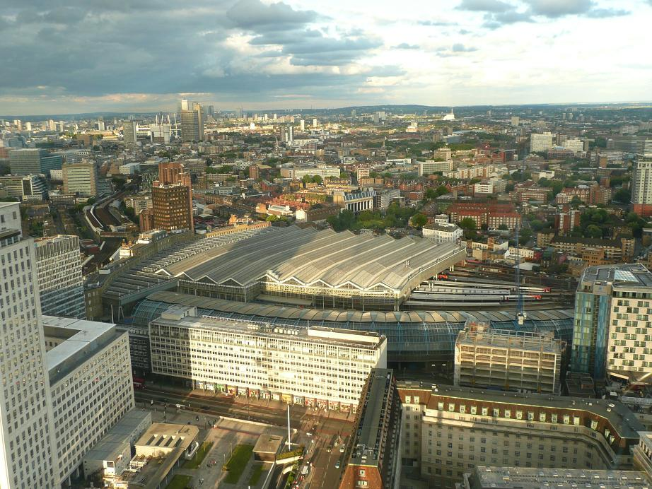 View of Waterloo station, London